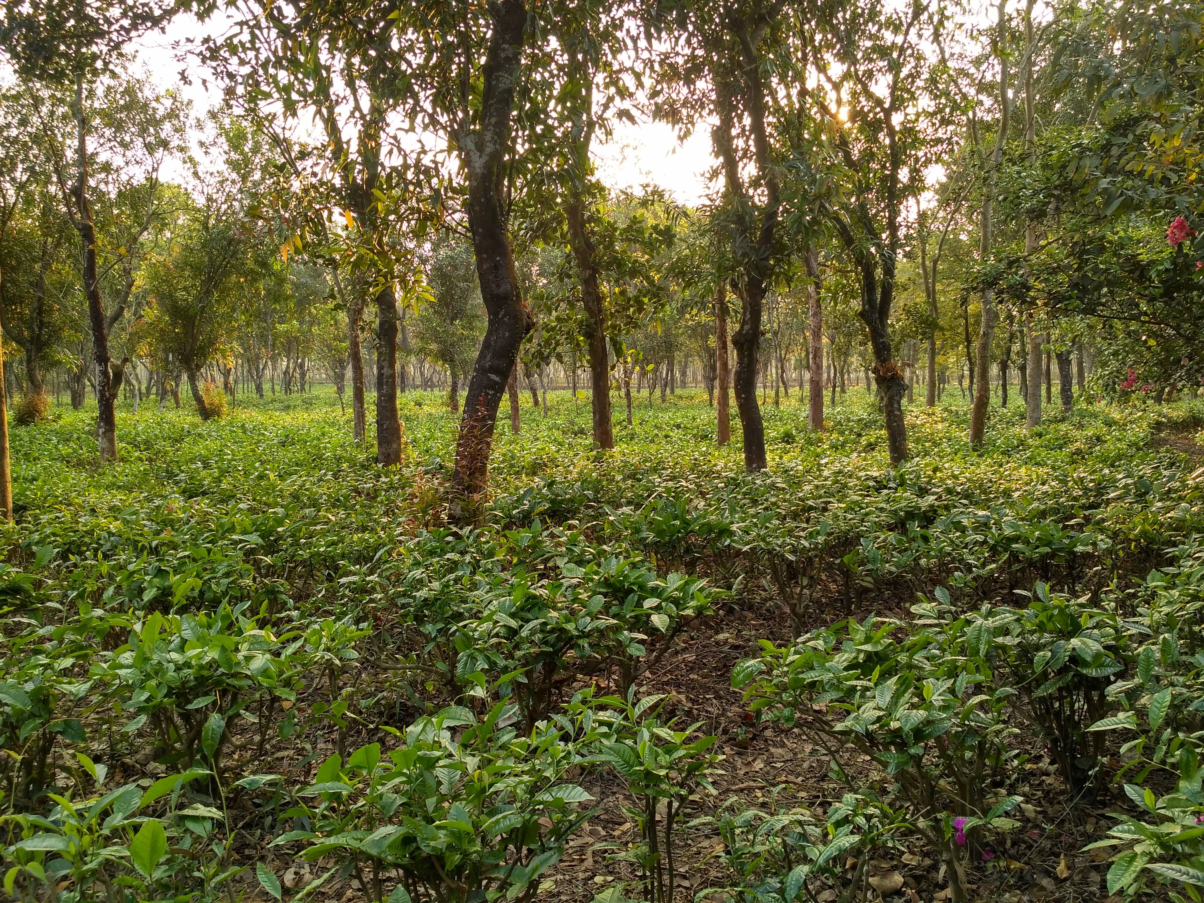 A tea garden at Tetulia Upazila, Panchagarh district, Bangladesh. (01.03.2019).